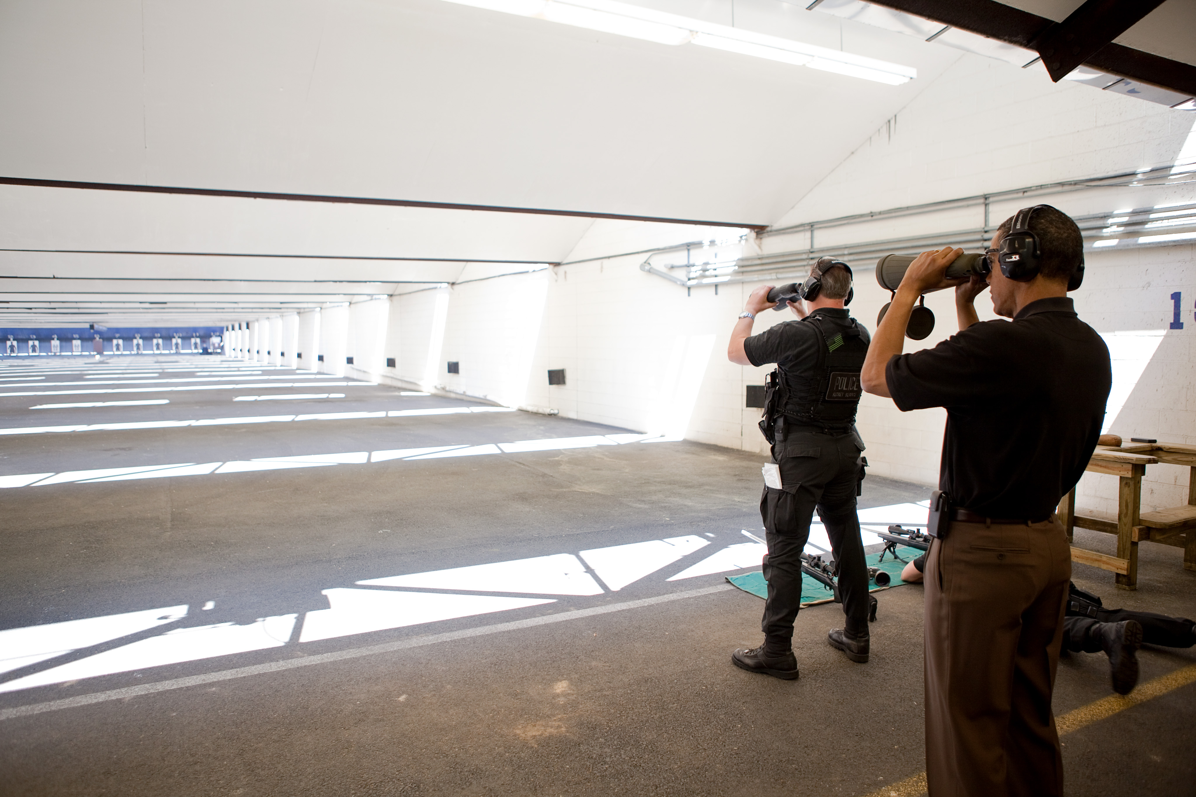 United States President Barack Obama (right) looks through binoculars as he tours the Secret Service's James J. Rowley Training Center in Beltsville, Maryland on 30 April 2010.